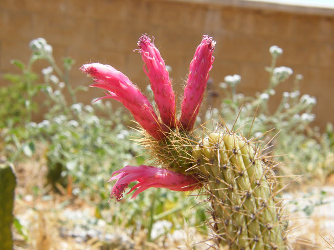 Cactus in a xeric garden, in Israel.